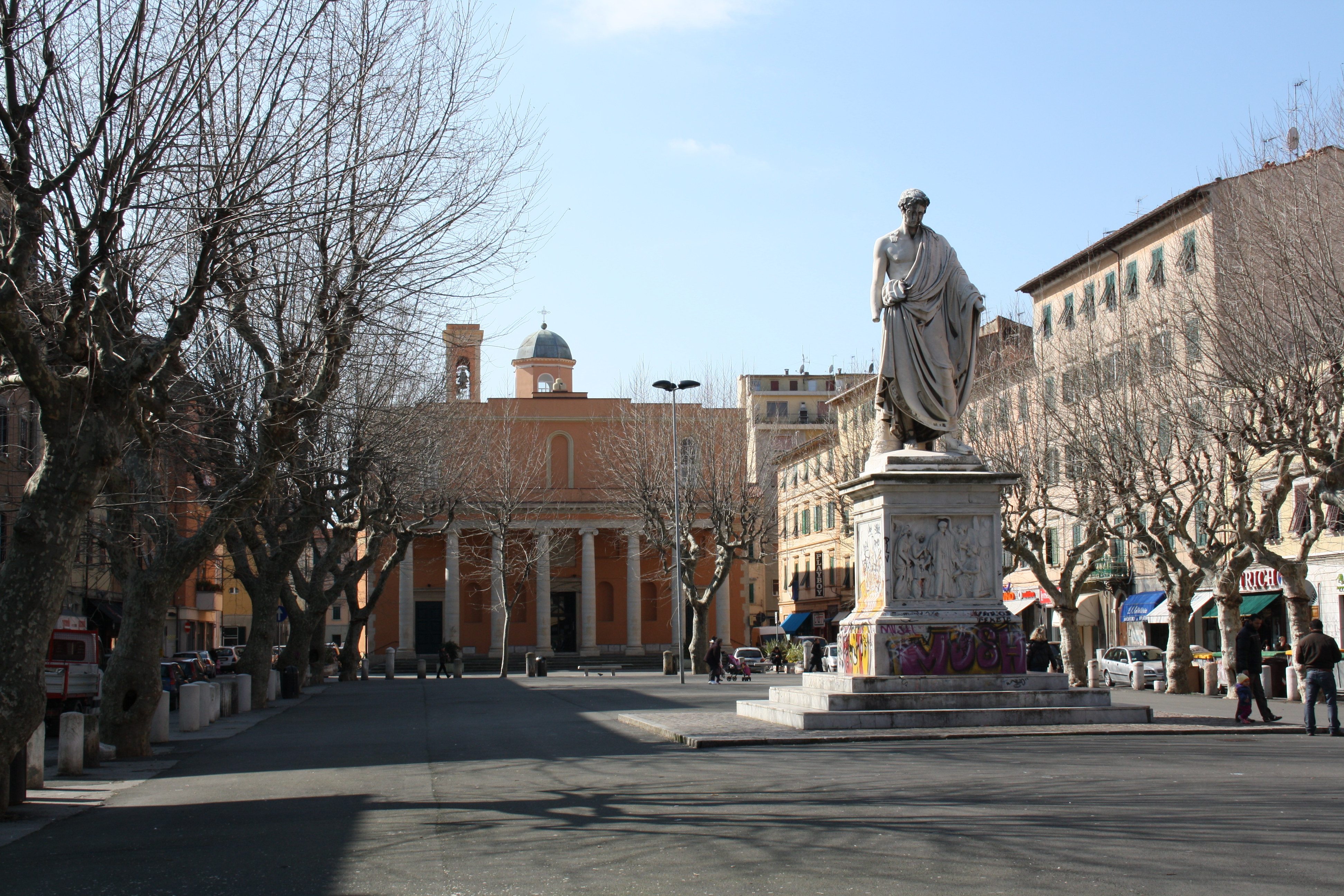 Livorno, Piazza XX settembre, the square once famous for the “American Market”, now turned at its original splendour.